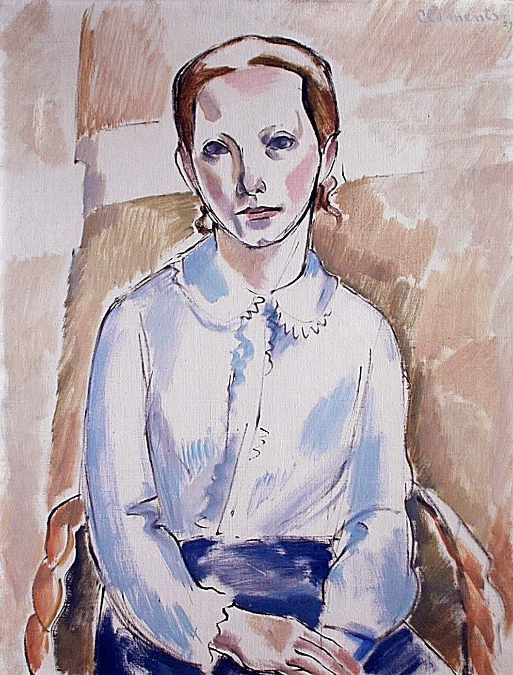 Portrait of a Young Girl, 1929 As per inscription on reverse, 24" x 18", oil on canvas, signed at upper right and dated